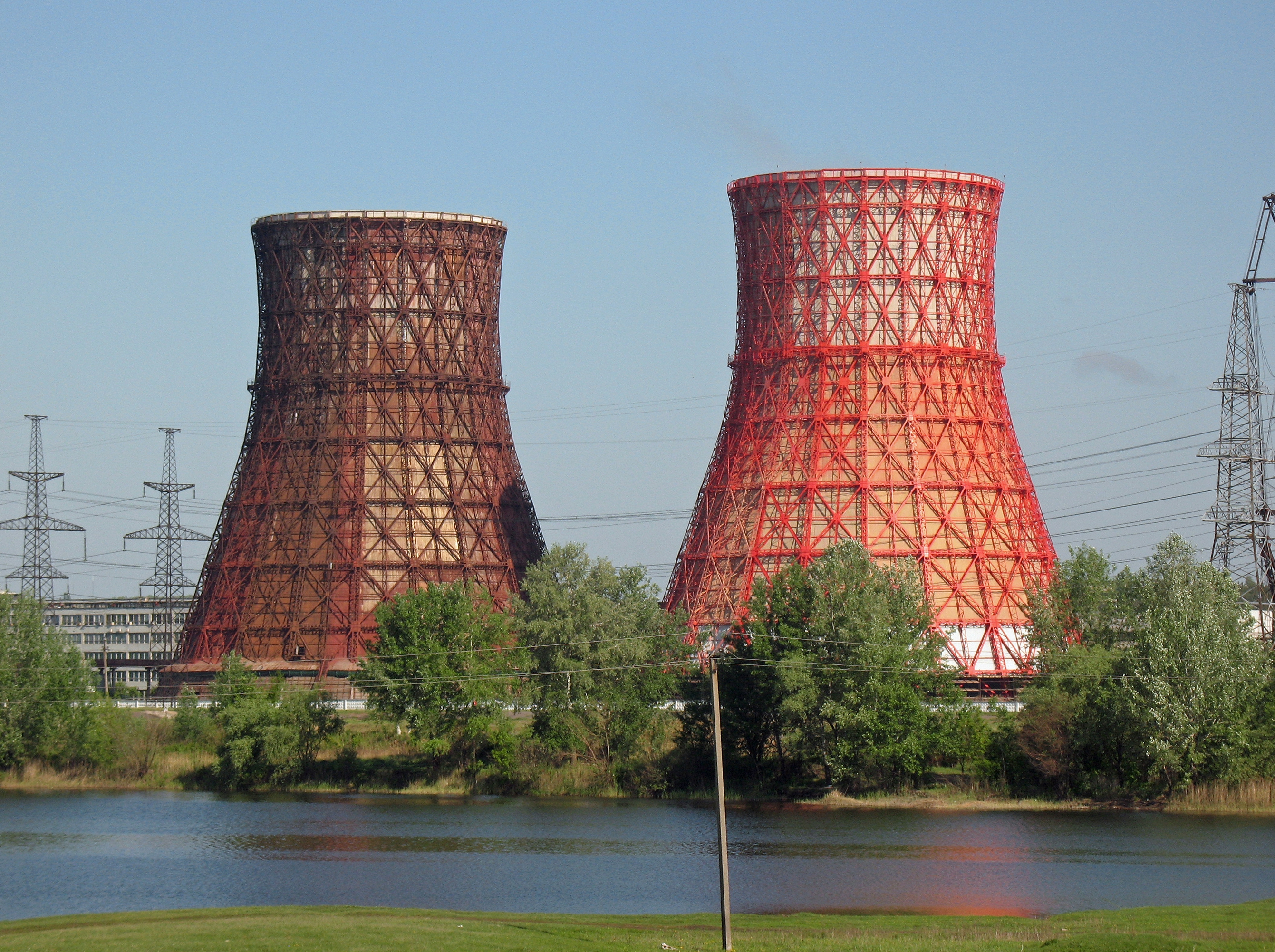 Udy River in Pesochin. Two hyperboloid cooling towers on Kharkov Power Station #5 ( TECh-5).